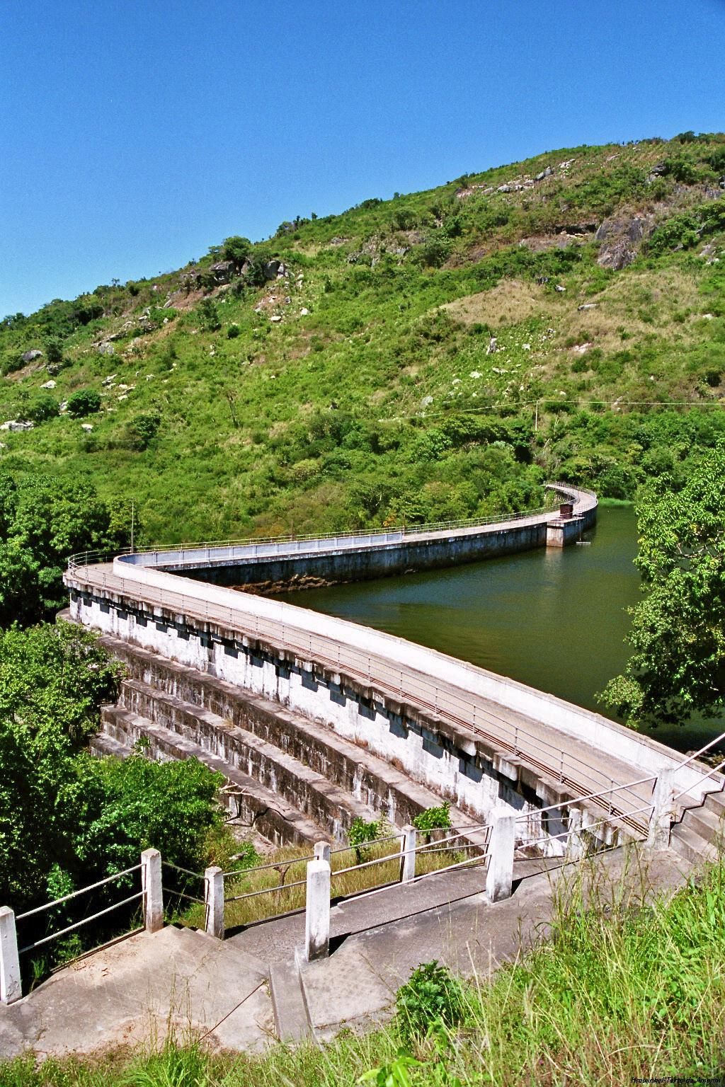 The Acarape do Meio resevoir's dam